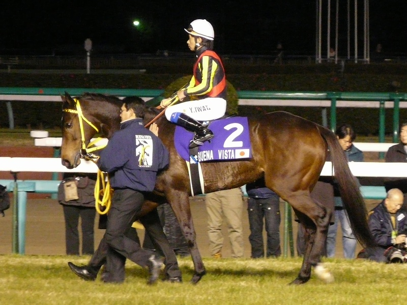 Buena-Vista-horse20111225